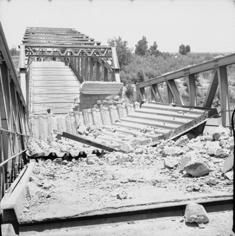 British Forces in the Middle East, 1945-1947 Damage to the Allenby Bridge carrying the main road from Palestine to Trans-Jordan following an attack by Jewish saboteurs during the night of 16-17 June 1946.